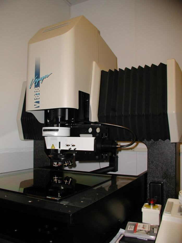 A VIEW Engineering, Inc. Voyager 18" x 18" machine vision-based CMM. This particular version was supplied with microscope optics.